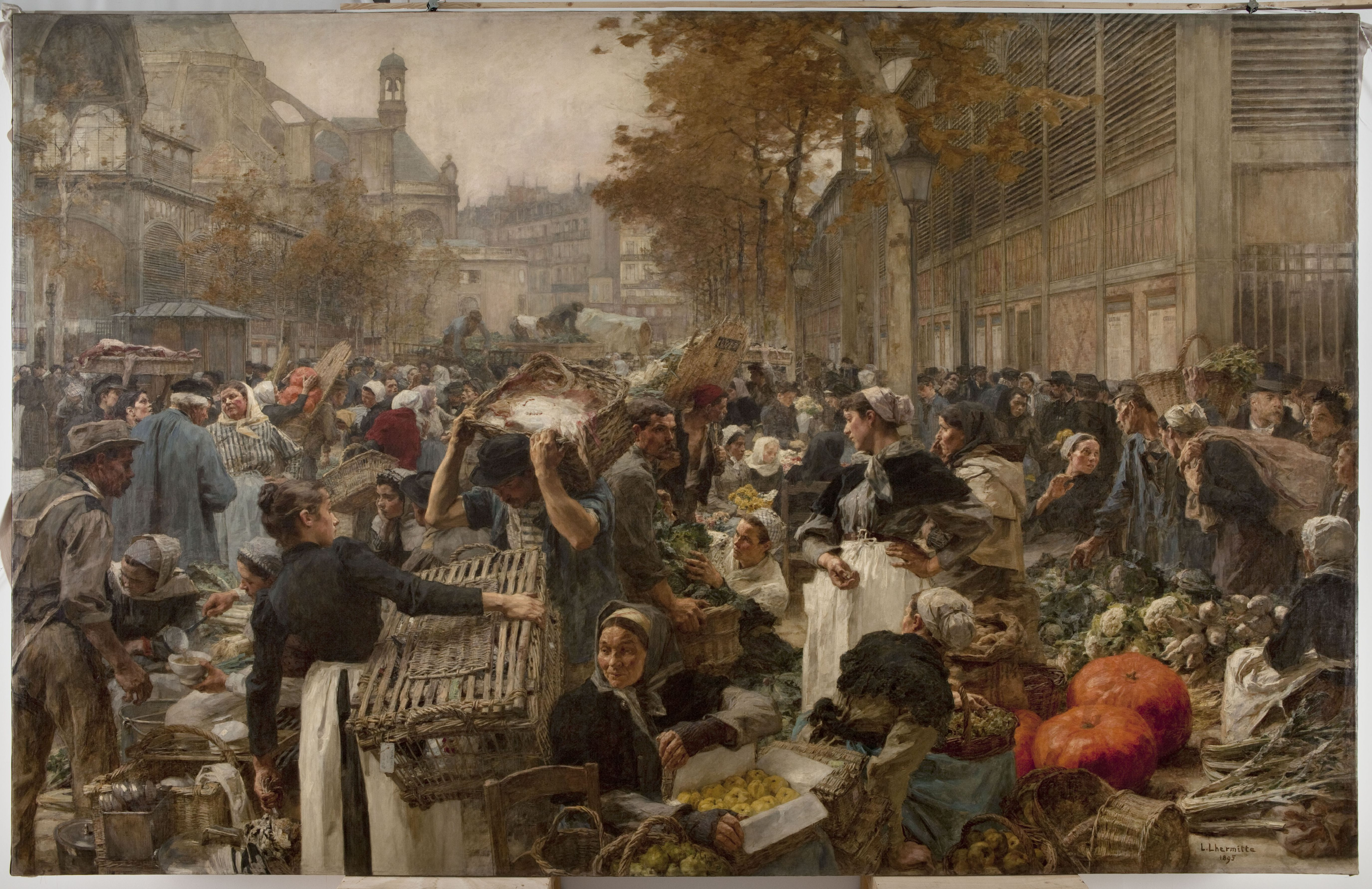 Léon Lhermitte, Les Halles (1895), oil on canvas, Paris, Petit Palais. Painting of the main market of Paris in the late 19th century. Painting ordered in 1889 for the City Hall of Paris.